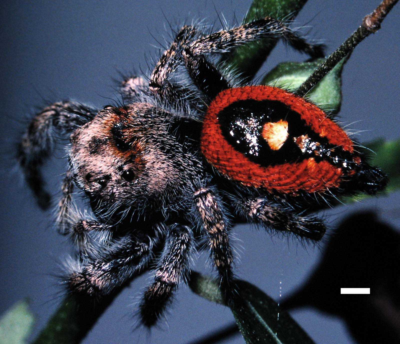 Female Phidippus pulcherrimus jumping spider from Big Prairie, Ocala National Forest, Florida, USA